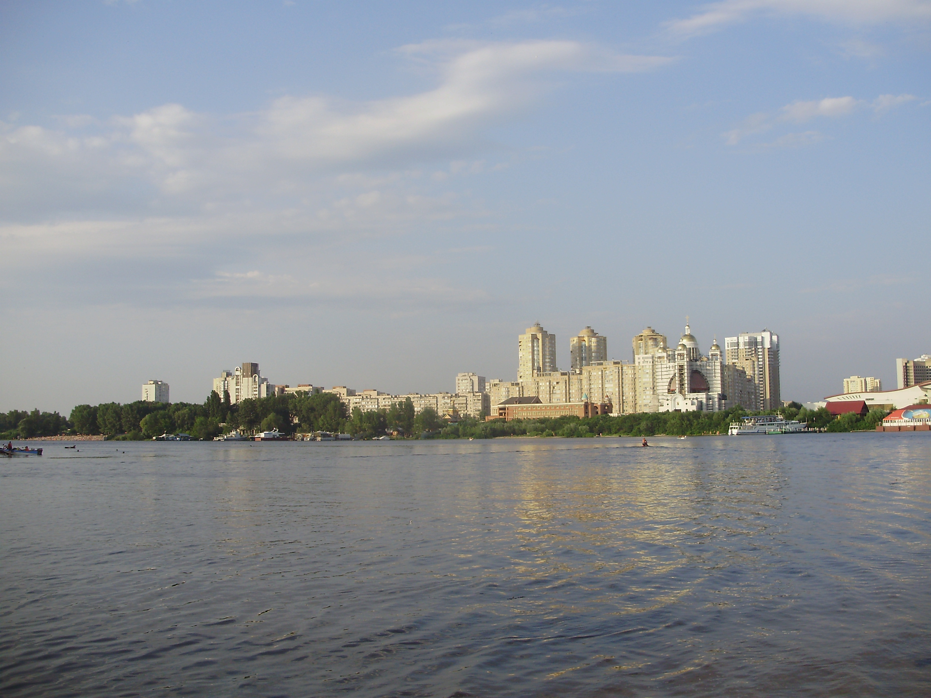 Rusanivska channel. Kyiv, Ukraine.